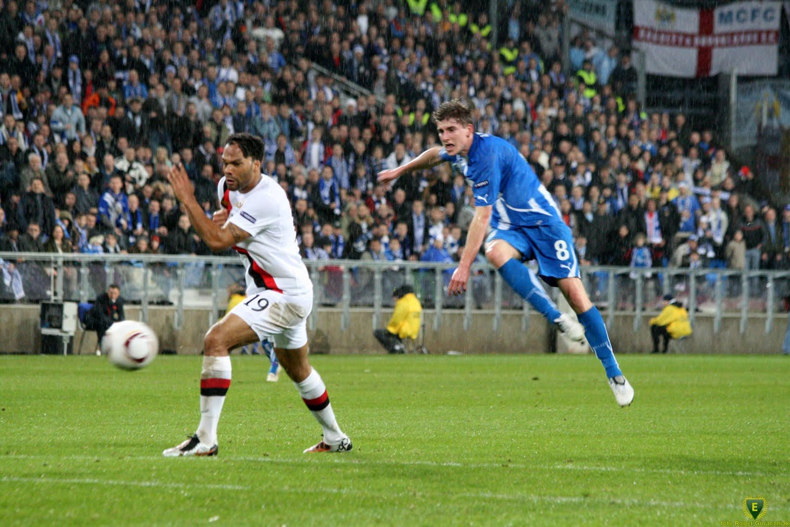 Joleon Lescott and Jacek Kiełb taking a shot Lech Poznań vs Manchester City FC, 4 November, 2010